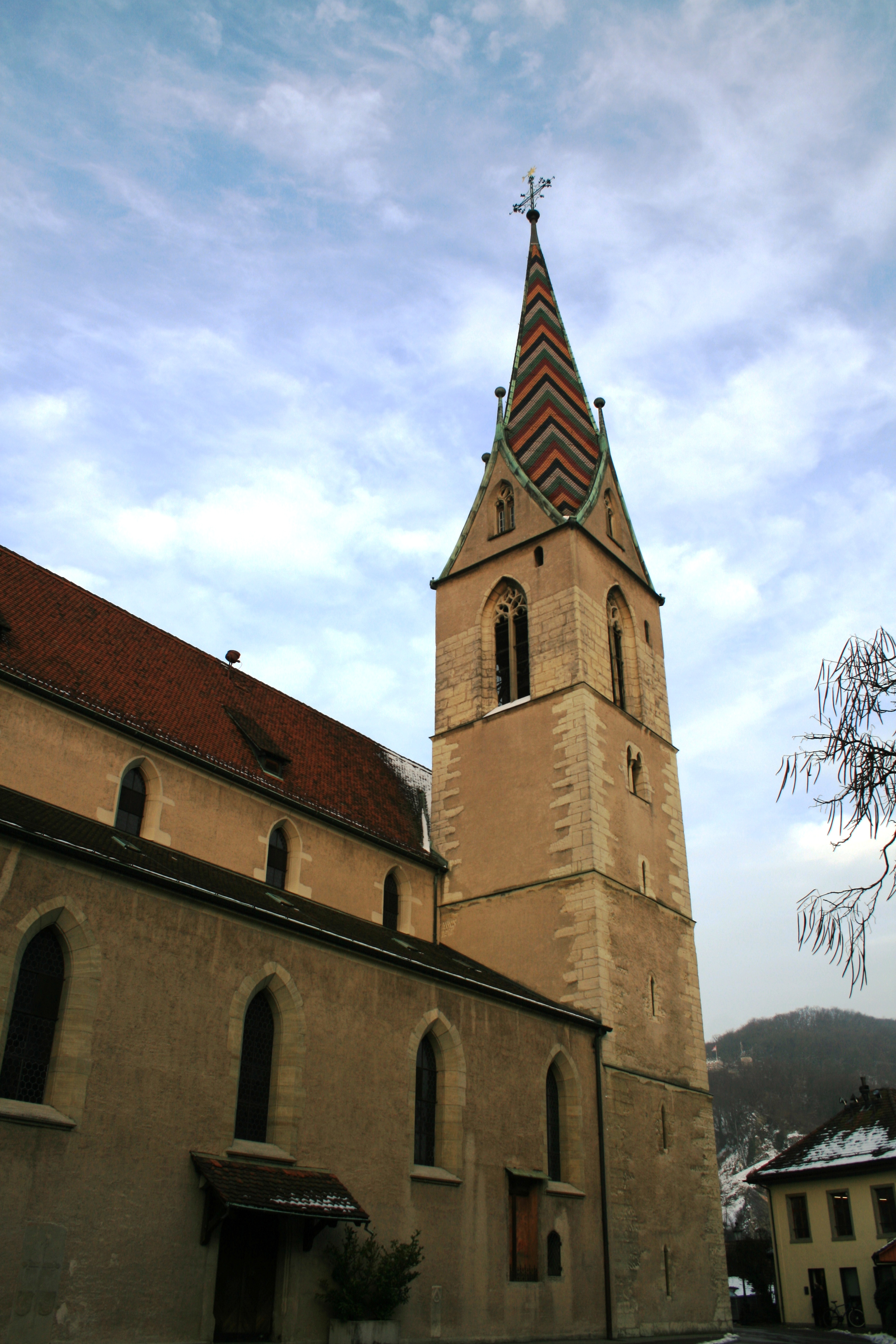 Rom.-cath. Church of Baden AG, Switzerland